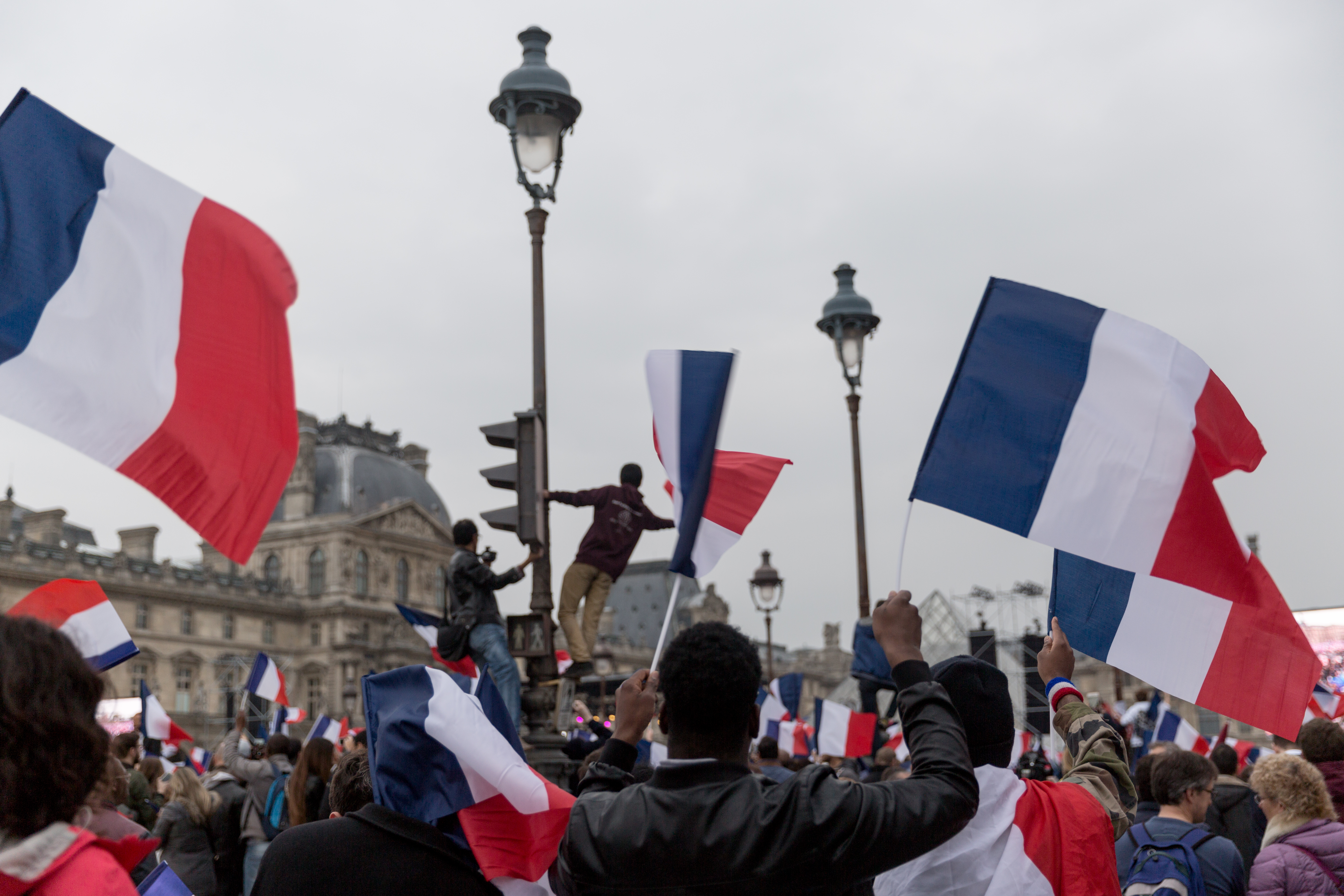 Celebrations at the Louvre on 7 May 2017